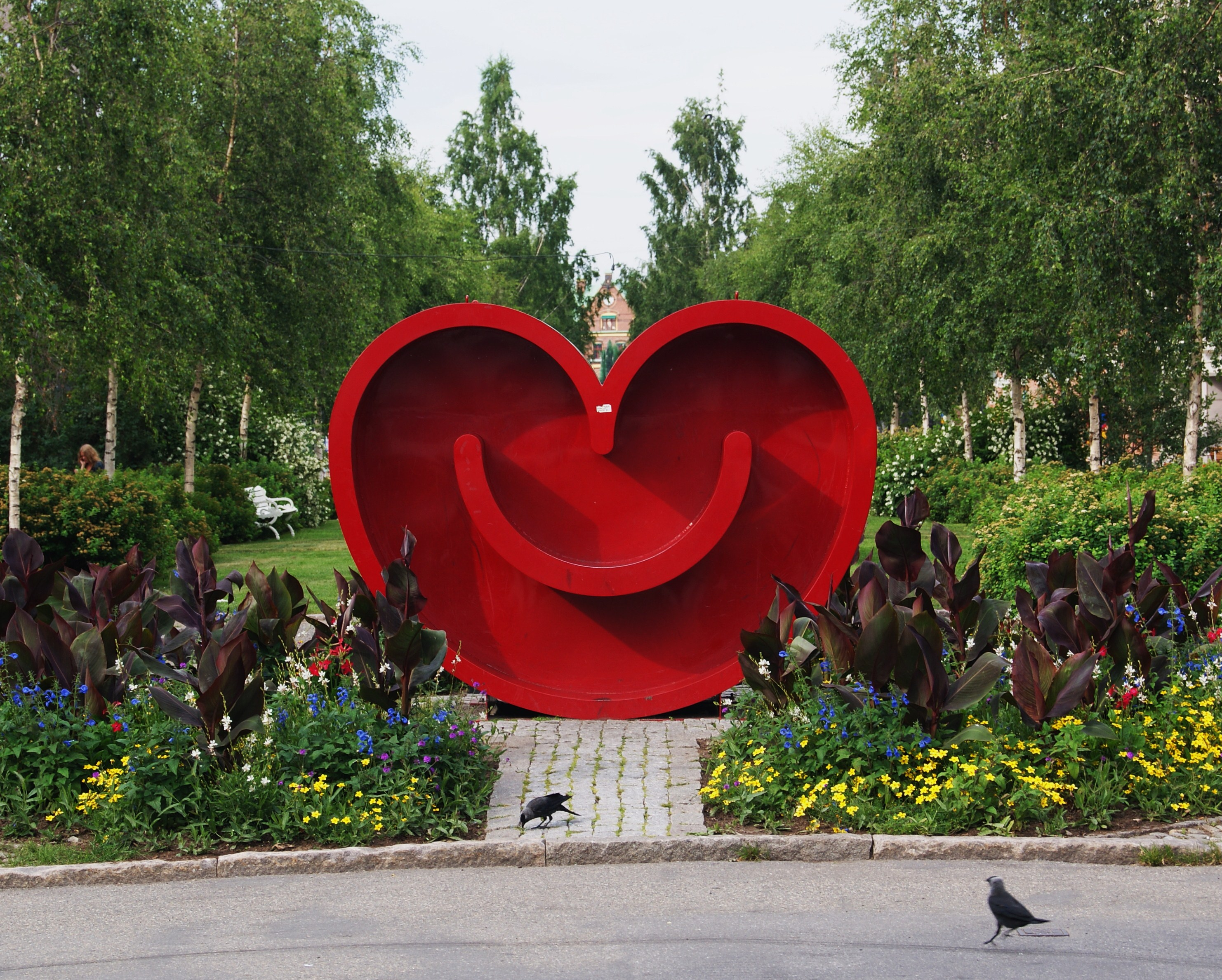 The smiling heart will be Umeå's symbol when the city becomes Europe's cultural capital 2014.